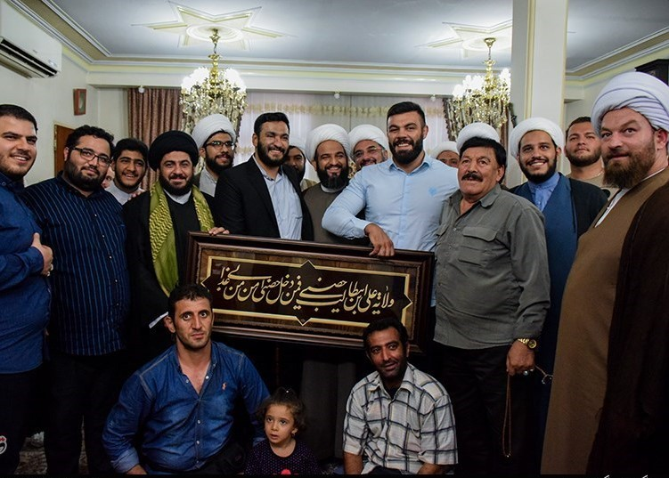 Amir Aliakbari Аҧсшәа: دیدار جمعی از مبلغان و مادحان کشور با امیر علی‌اکبری قهرمان مسابقات جهانی ام.ام.آی هنرهای رزمی ترکیبی دیدار کرده و از مواضع آئینی این ورزشکار ارزشی تقدیر به عمل آوردند.